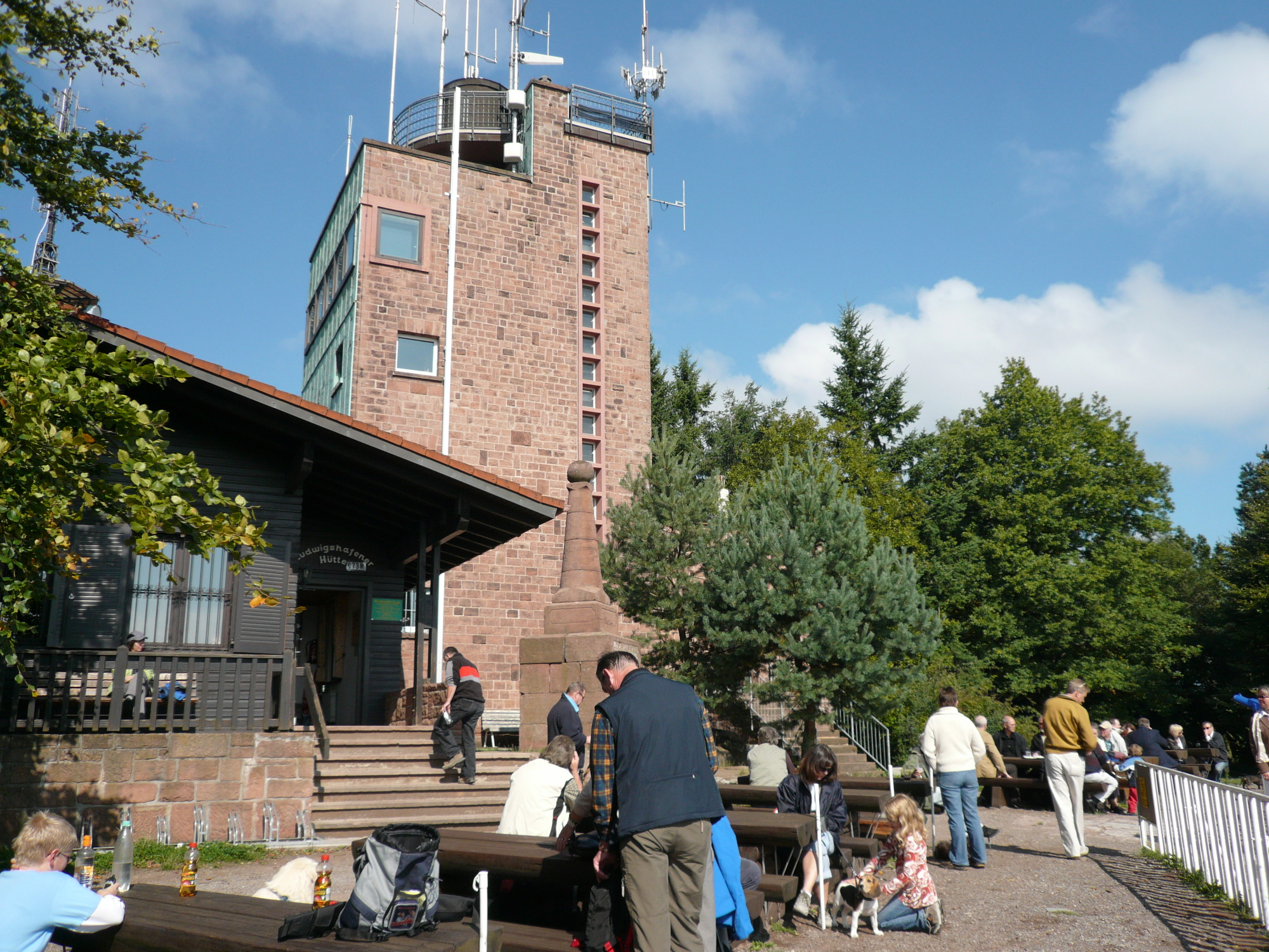 On the summit of Kalmit mountain